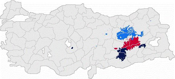 Areas where Southern Zazaki speakers are corrected